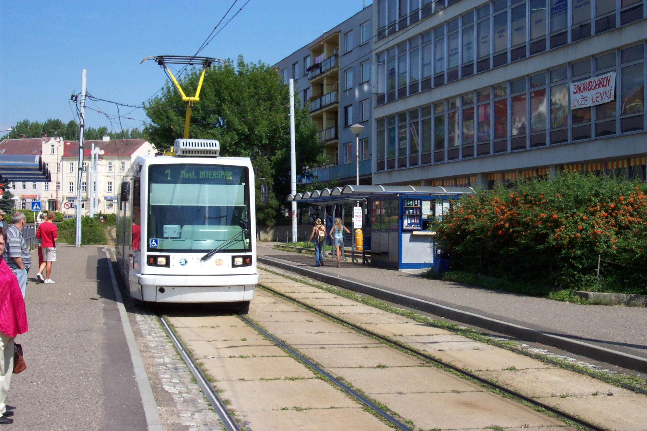 Litvínov, tram type Škoda Astra in the center of city